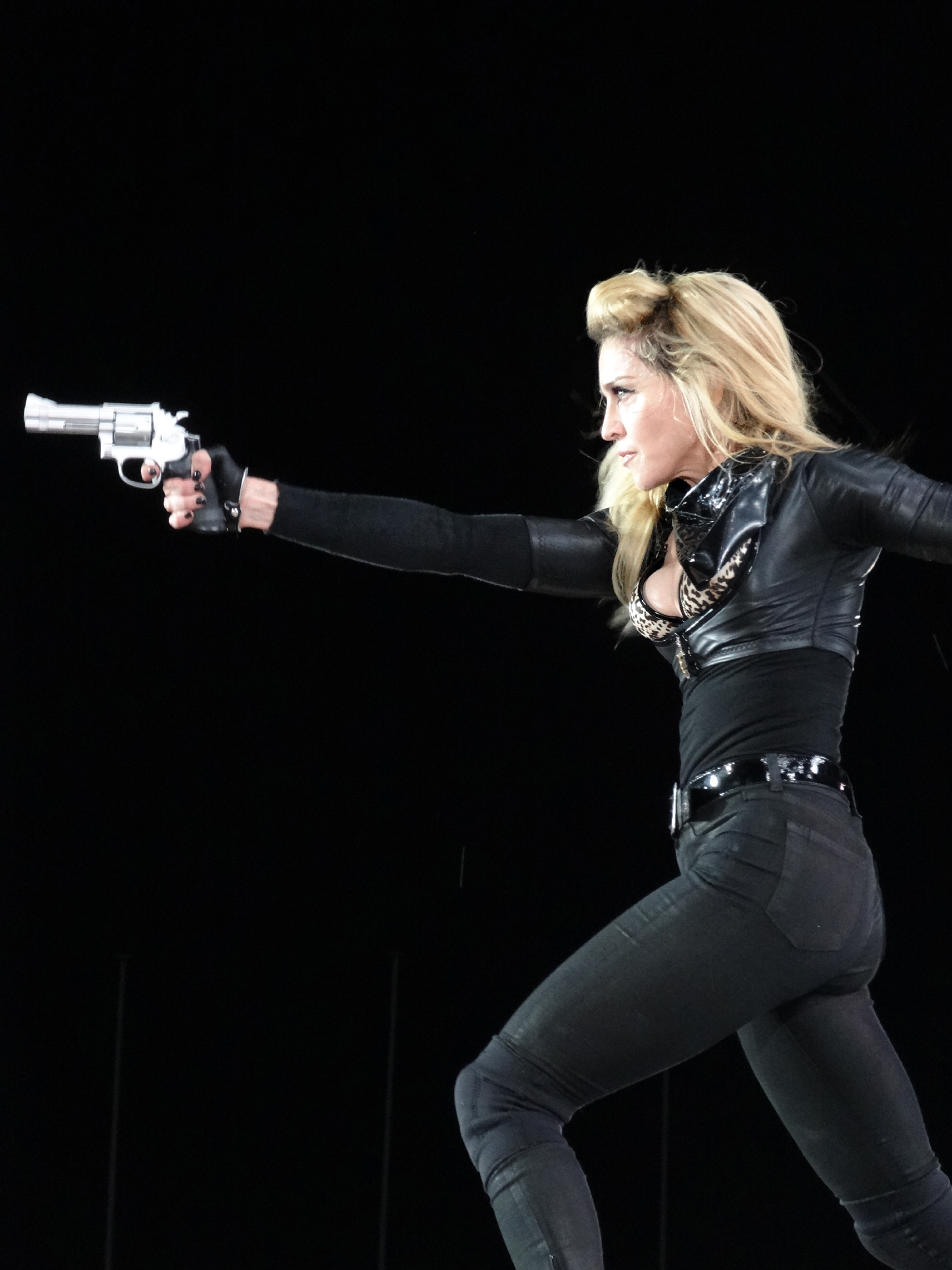 Madonna during her concert in Nice as part of her MDNA Tour on August 21, 2012.